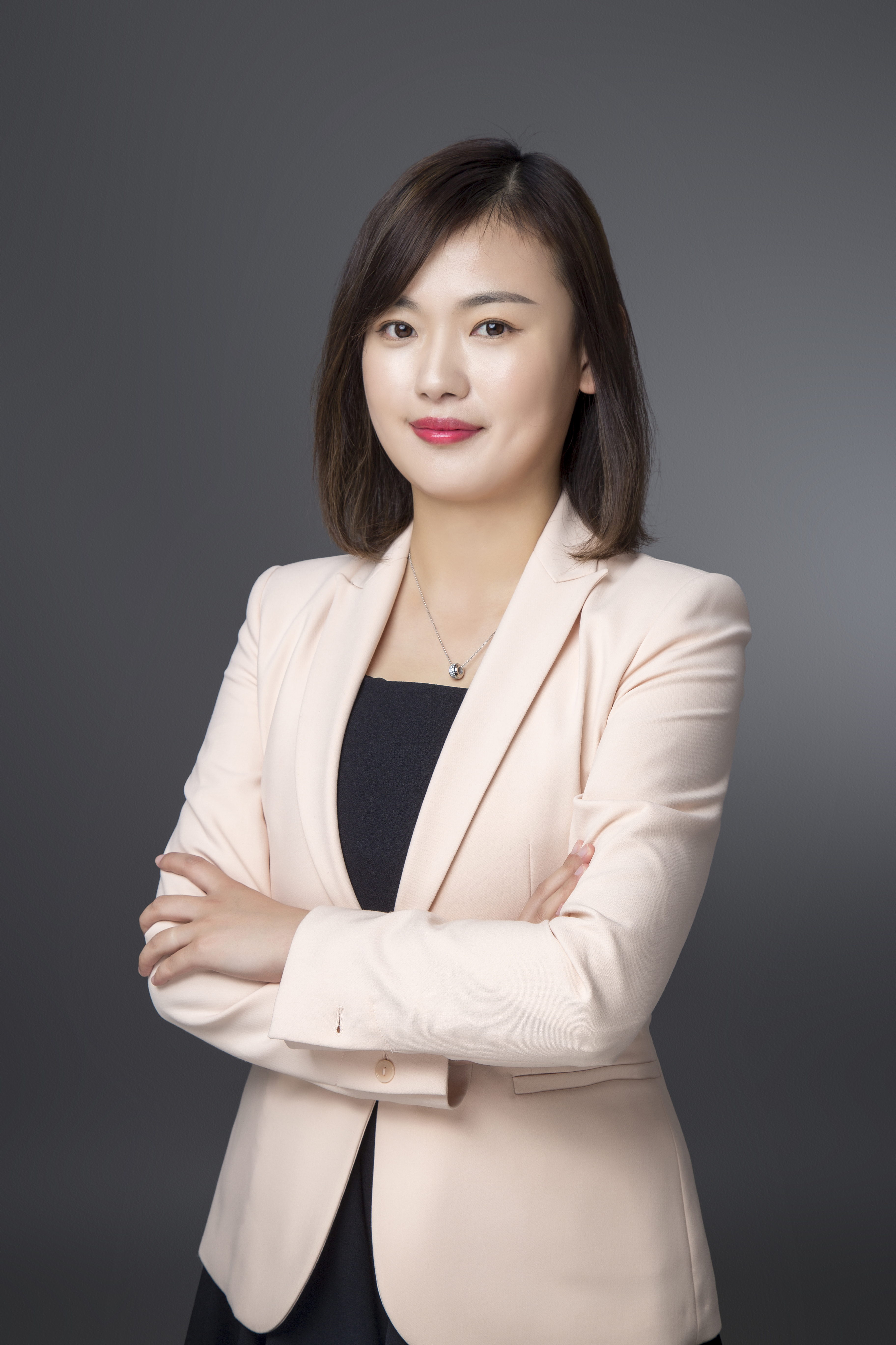 This is my personal photography.